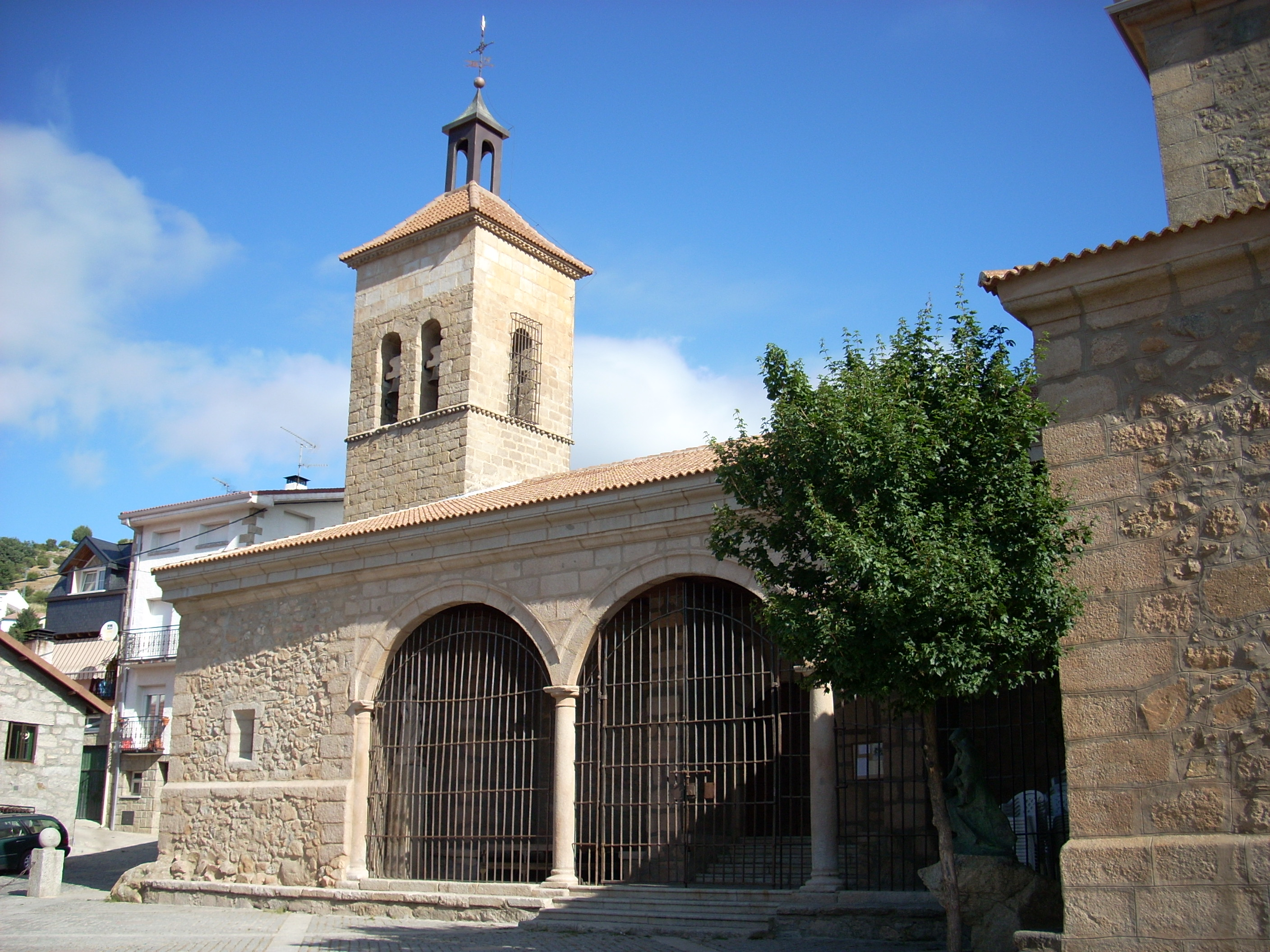 Church of St. Sebastian, Cercedilla, Madrid